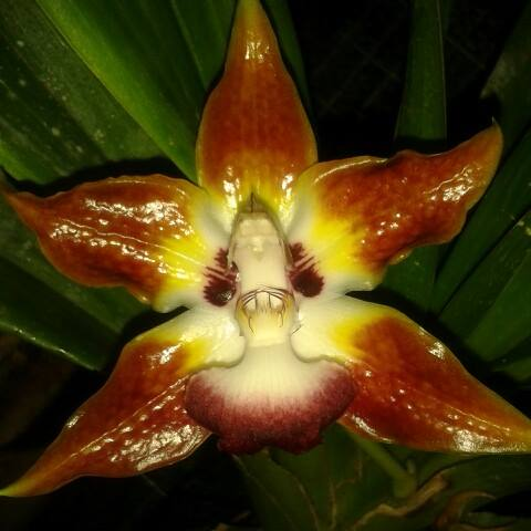 Huntleya burtii